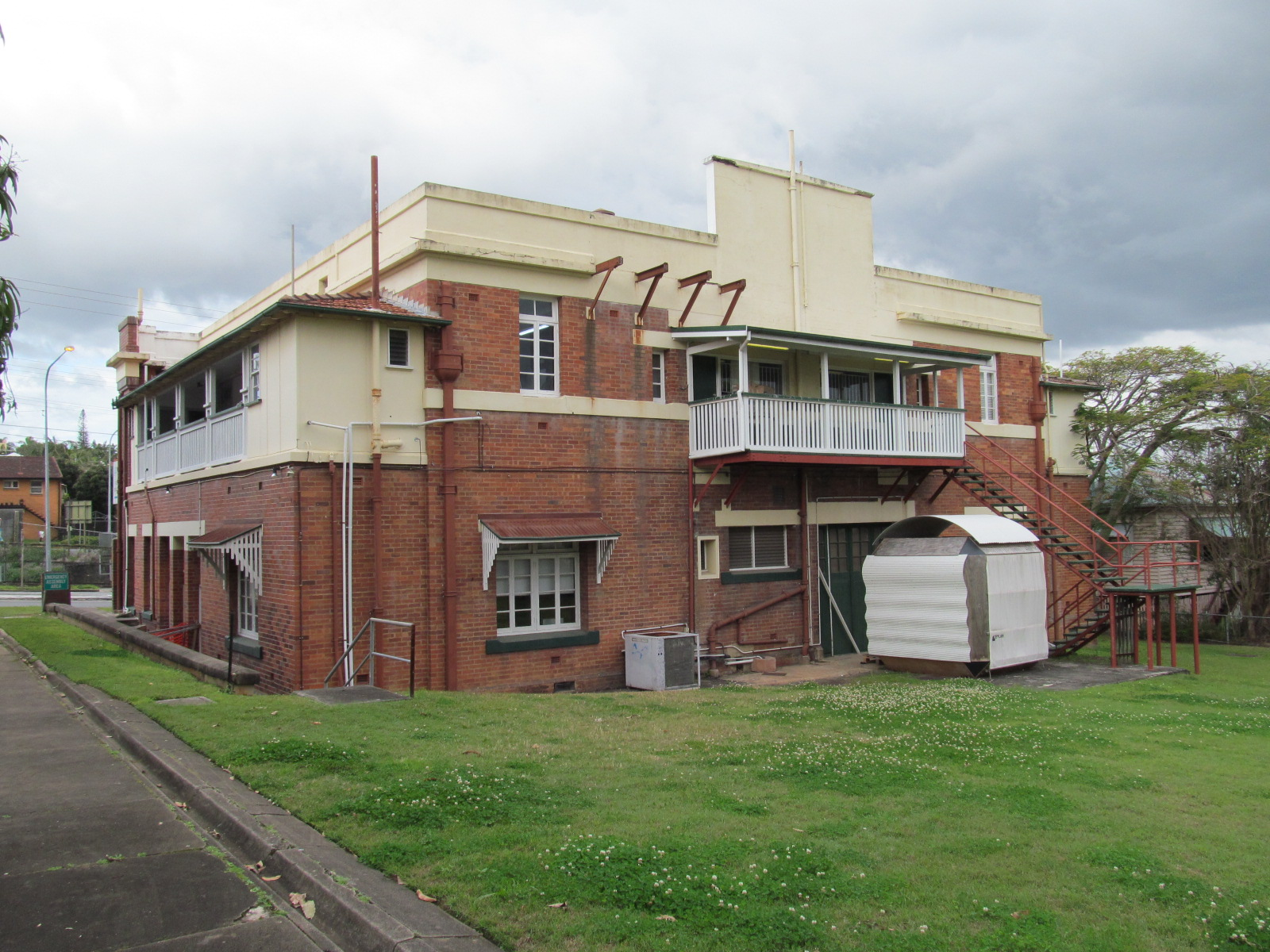 Old fire station in Albion, Queensland, now used as a business premises.